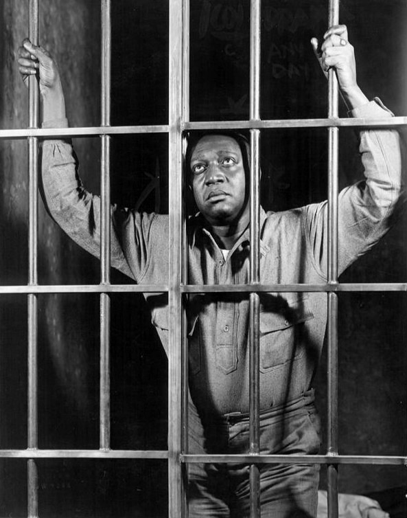 Photo of Ernest Whitman in the role of Vincent Jackson from the 1930 Broadway play The Last Mile.